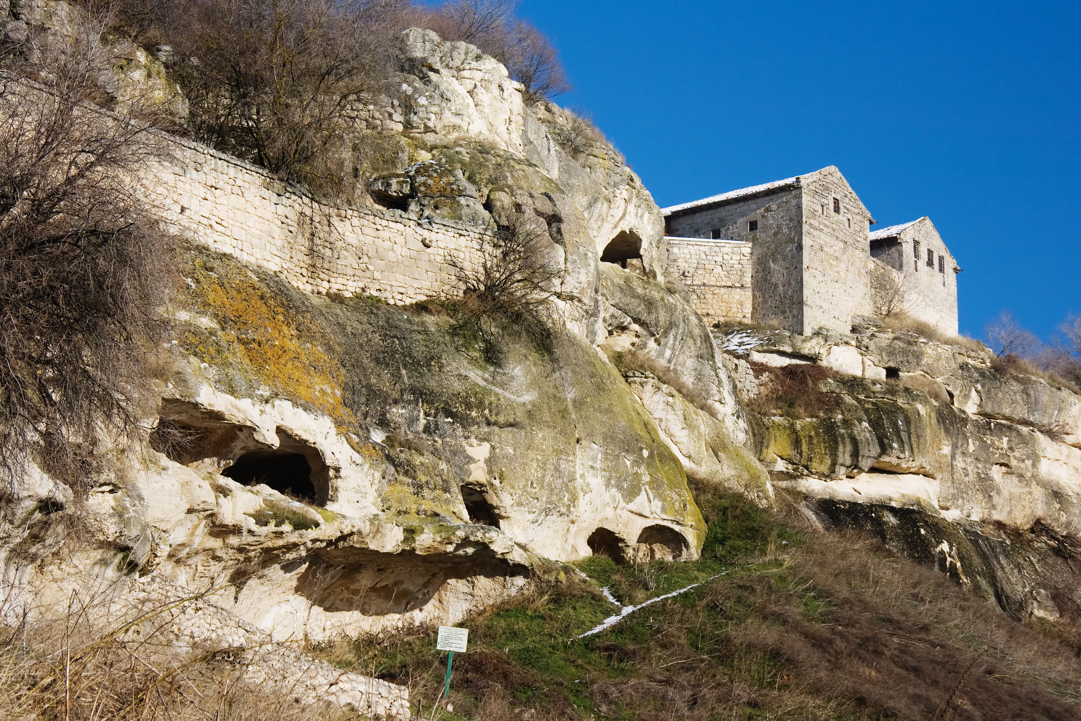 Chufut Kale, Crimea